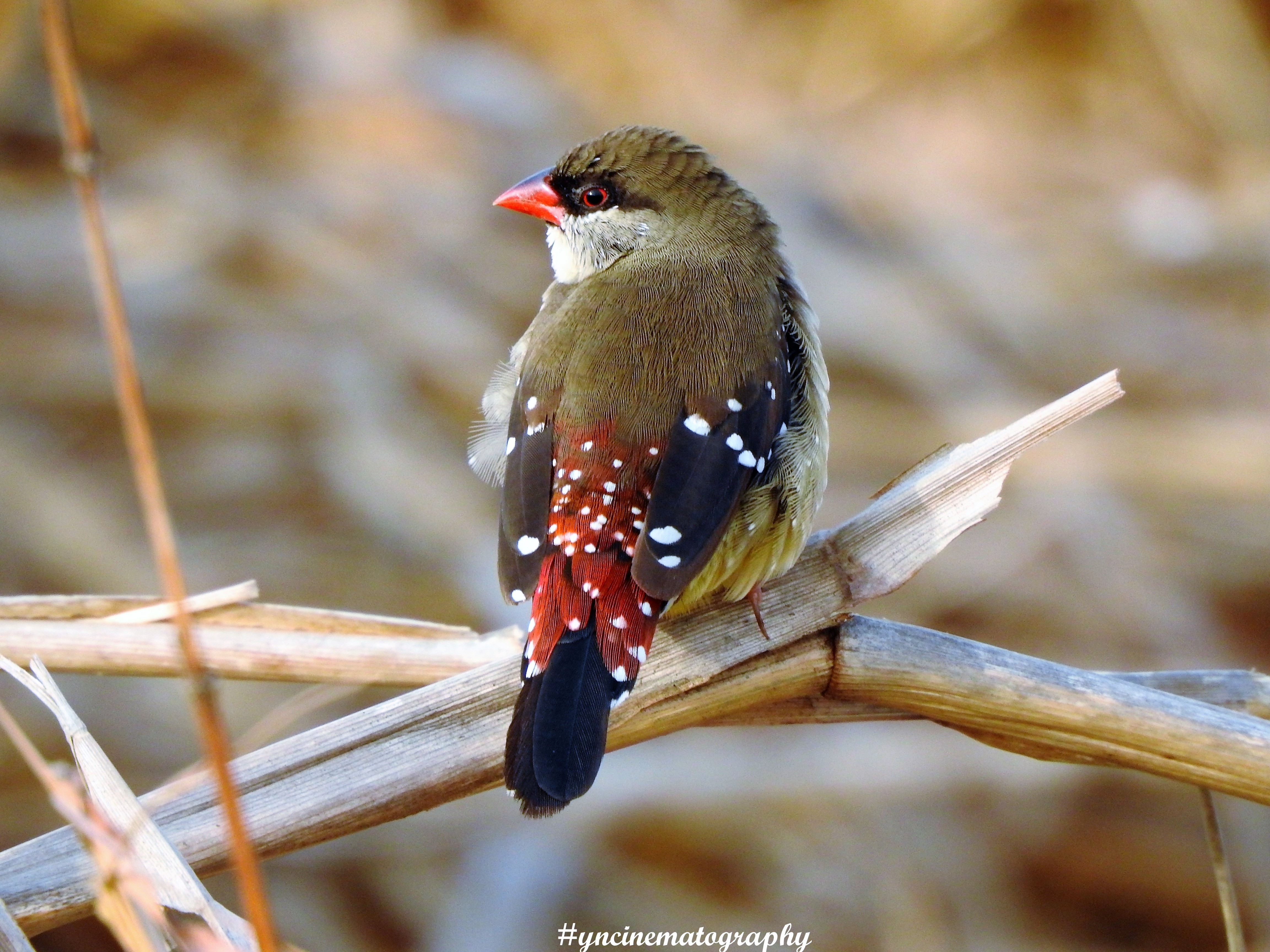 The Red Munia or Red Avadavat.